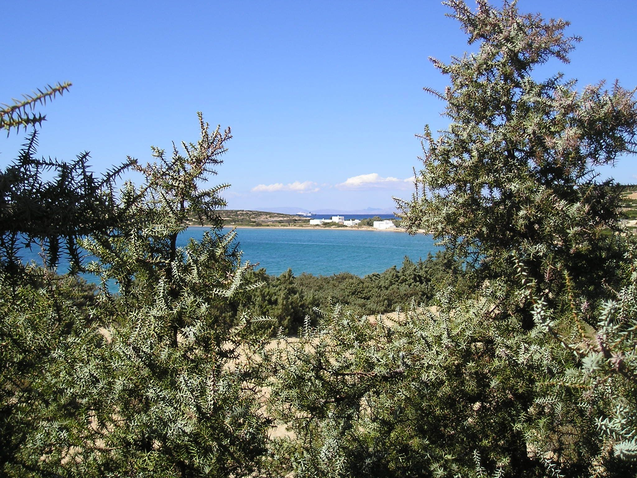 Juniperus macrocarpa, Langeri, Paros Island, Greece